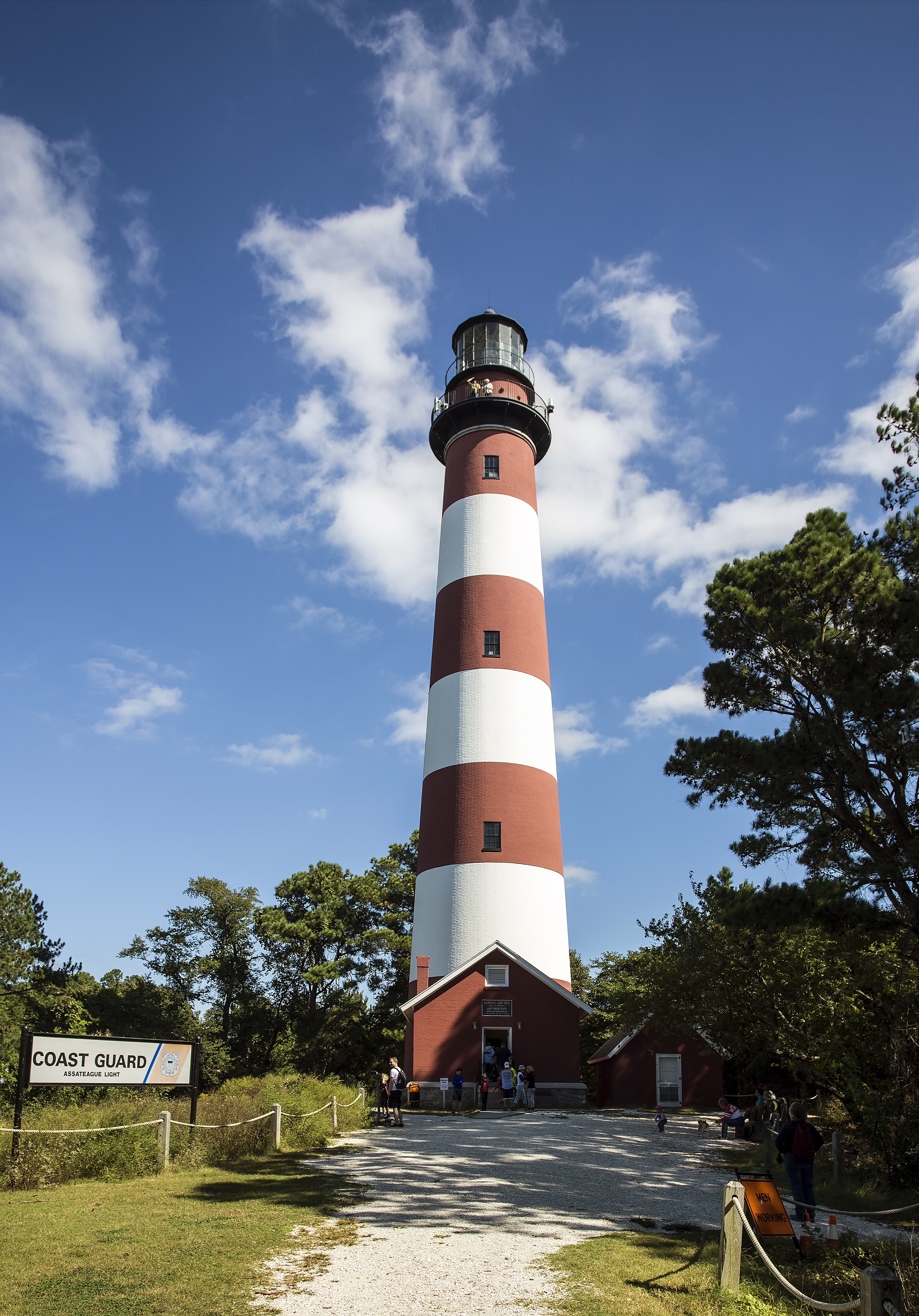 Assateague Lighthouse exterior, Assateague Island, Virginia, USA